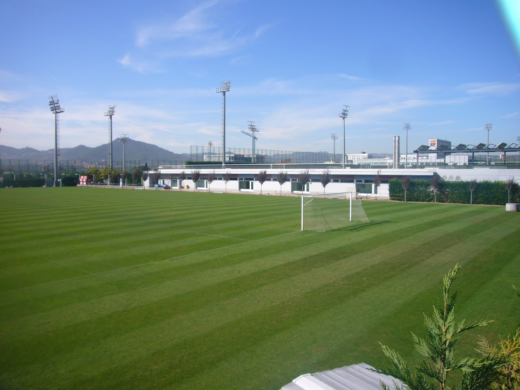 Field number 4 (a grass pitch) at the Ciutat Esportiva Joan Gamper